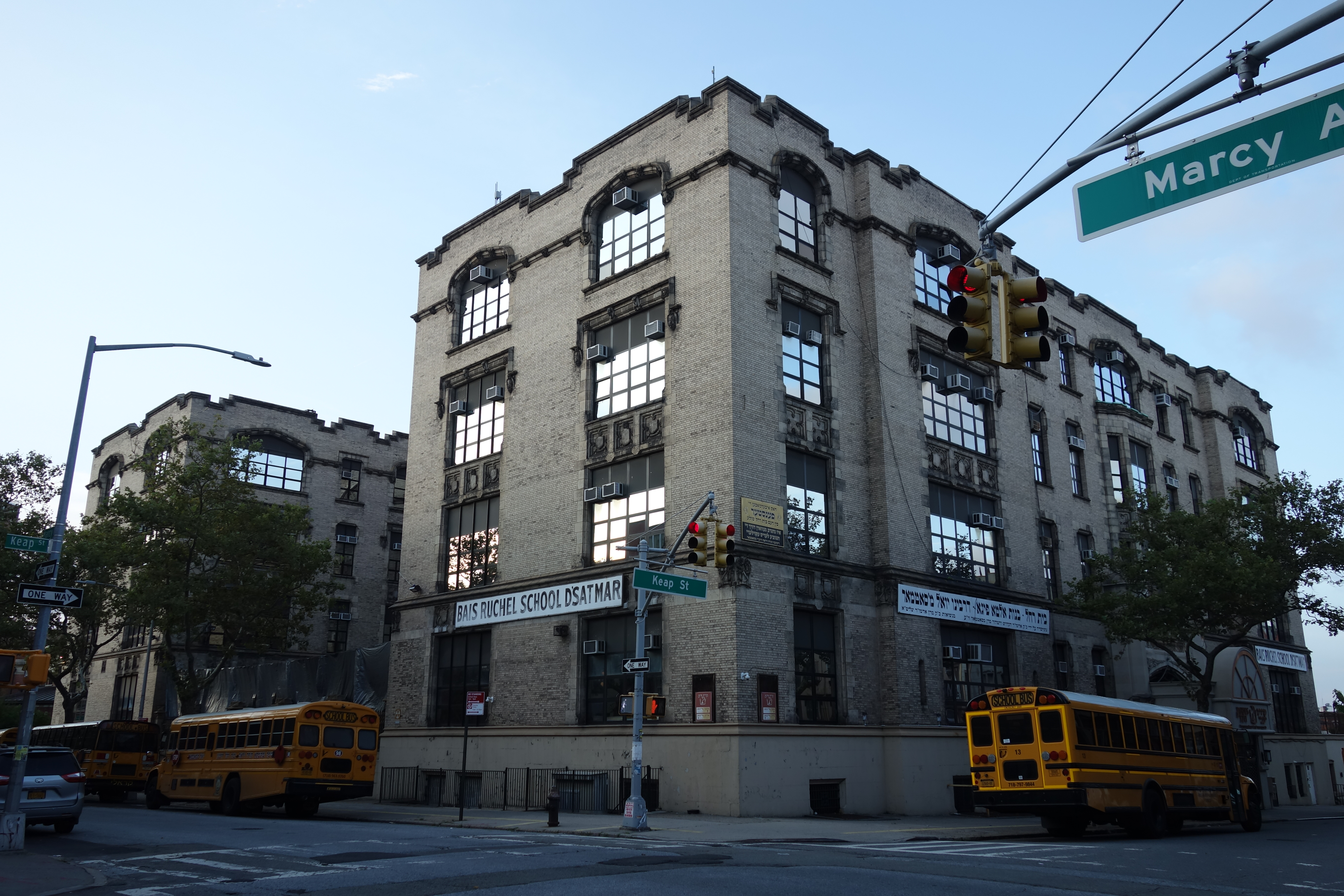 The former building of Eastern District High School (227 Marcy Avenue), looking from Marcy Avenue and Keap Street in Williamsburg, Brooklyn. The building is now used by the Bais Ruchel d'Satmar yeshiva. The institution Eastern District High School moved to 850 Grand Street in 1981, but closed in 1996 and now exists as Grand Street Campus.